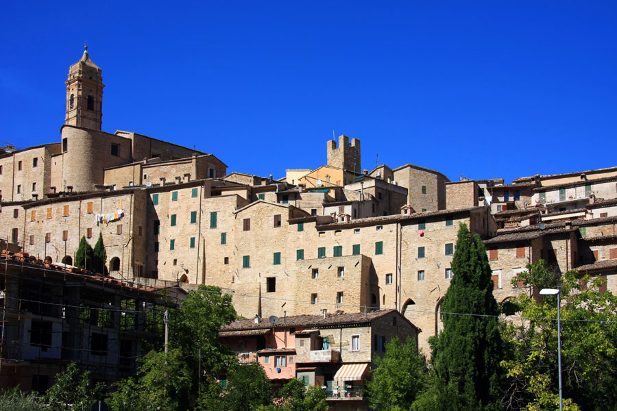 View of Serra San Quirico (AN)